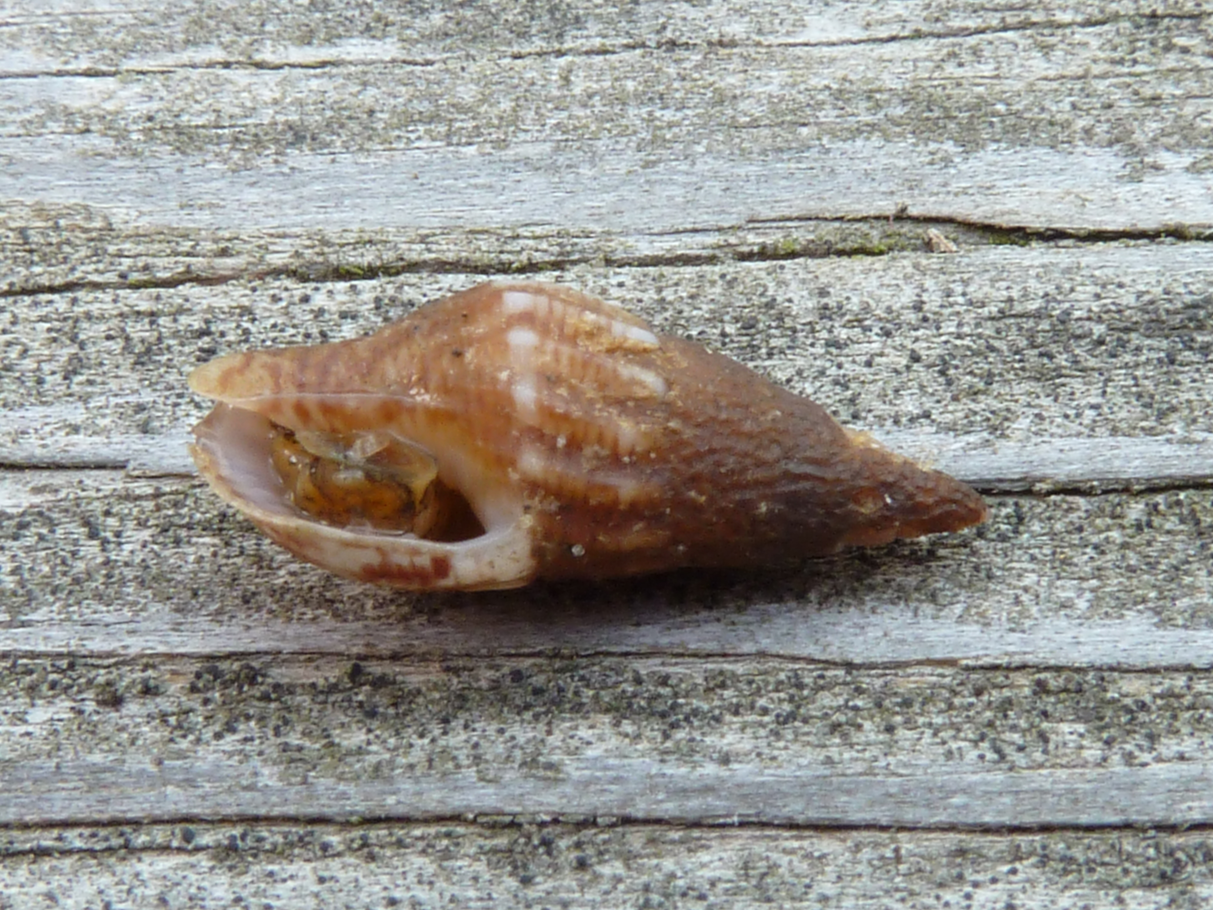 This species in the north, as it is here, is now considered by WoRMS to be Cotonopsis lafresnayi. C. translirata is a southerly species. Live Columbellid, Cotonopsis lafresnayi (P. Fischer & Bernardi, 1856) (synonyms: Anachis (Costoanachis) lafresnayi, (Costoanachis translirata) in trawl on RV Gemma, during BioBlitz at TDWG 2010. Apertural view, with portion of foot visible. p1000131